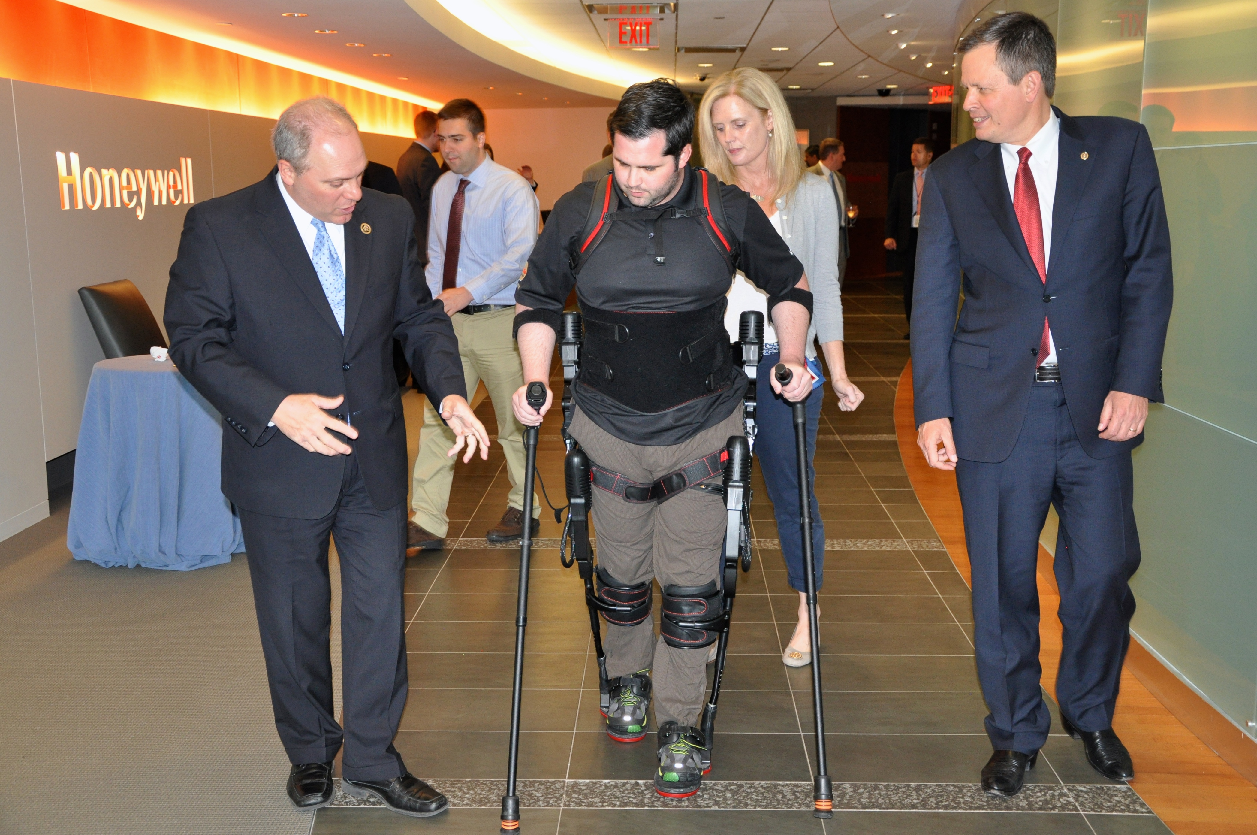 A paralyzed veteran walking with the help of an ExoSuit